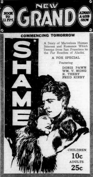 Newspaper advertisement for the American drama film Shame (1921), on page 5 of the February 11, 1922 Duluth Herald.